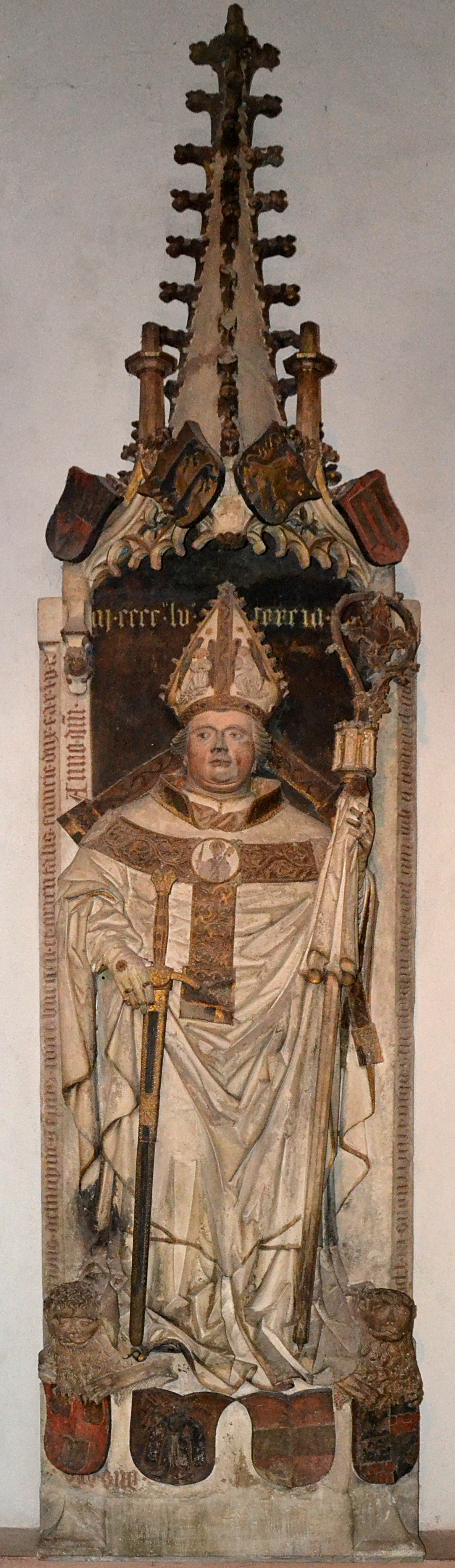 Gottfried IV. Schenk von Limpurg grave Wurzburg